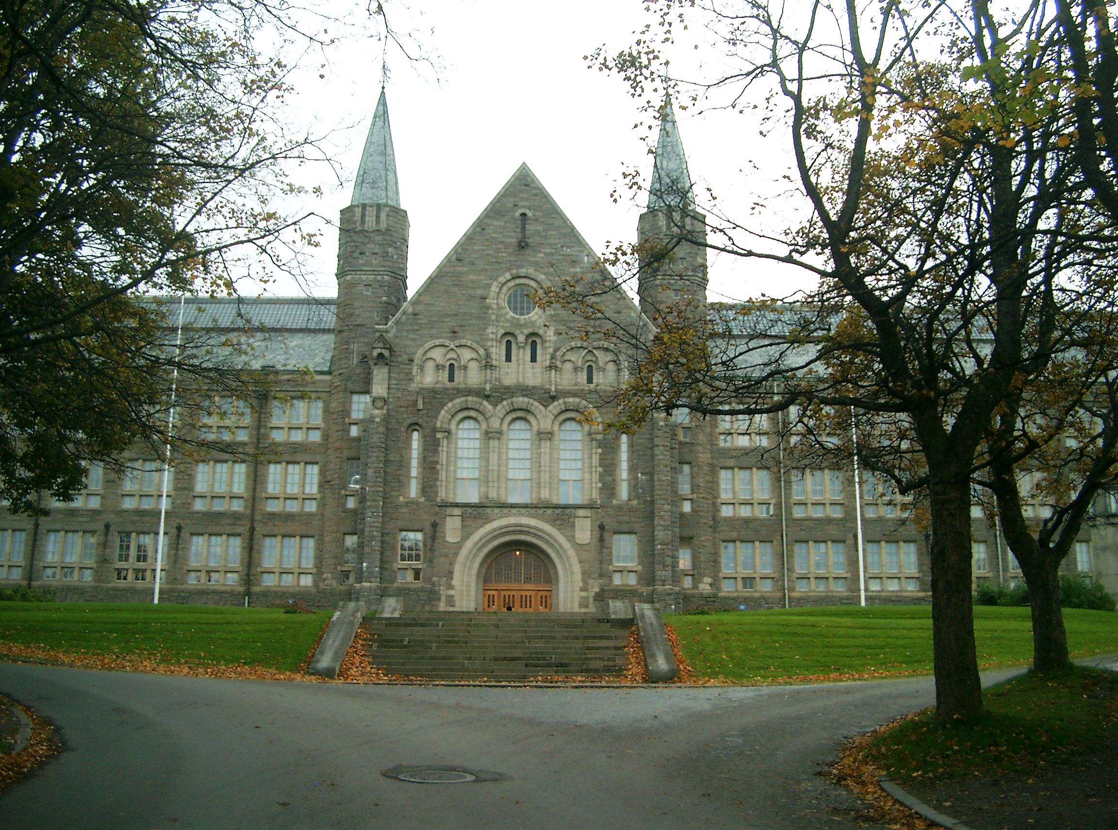 Main building, NTNU, Trondheim. Built 1910. Architect: bredo Greve